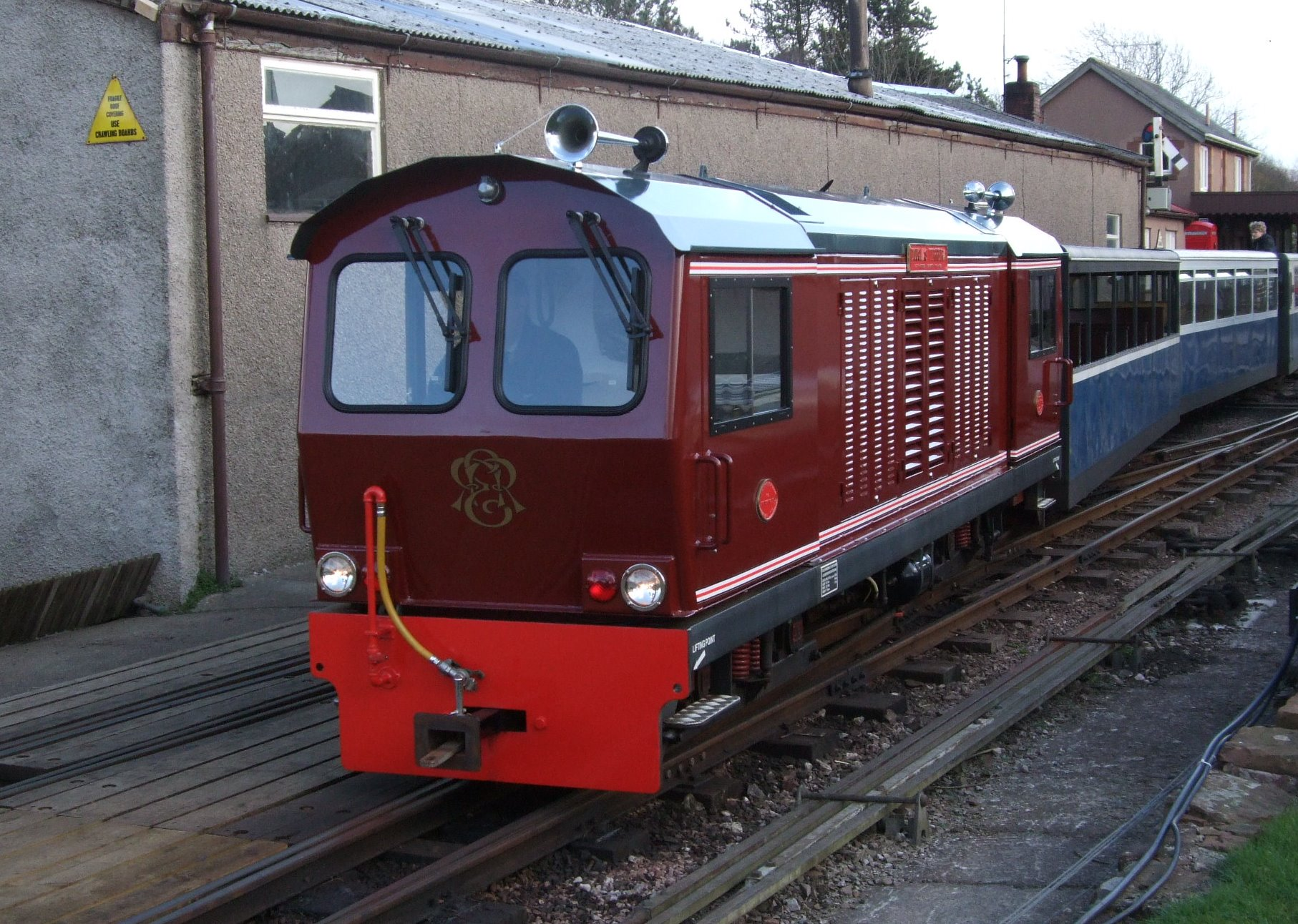 Douglas Ferreira leads the 1650 Ravenglass and Eskdale Railway service to Dalegarth for Boot.